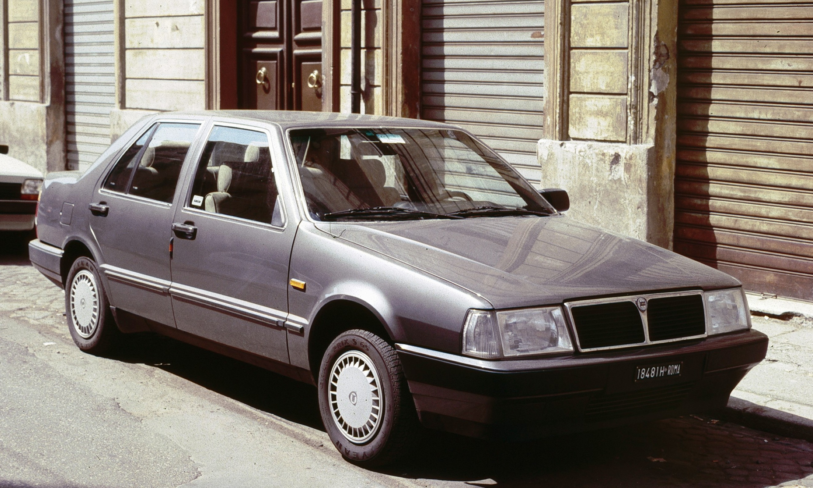 Lancia Thema in Rome